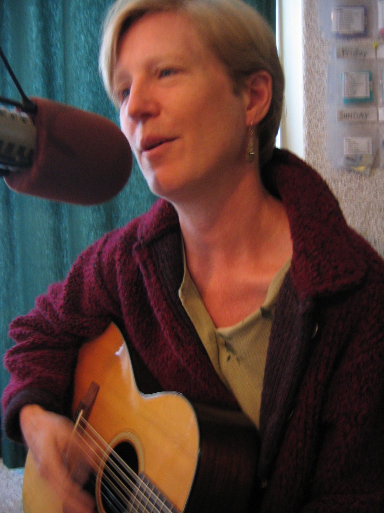 Libby Roderick , a lifelong Alaskan, from Anchorage, was the first guest on today's show, untrained in music she came to music via activism, the music has blossomed and the activism never left. She will be in, a soon to be aired CNN piece, by Anderson Cooper. A great connection story or two, We had a great dialogue and heard some of her songs that tie musicality and politics together on today's Us Folk program.Note we had done a phoner years ago so it was great to finally connect face to face.